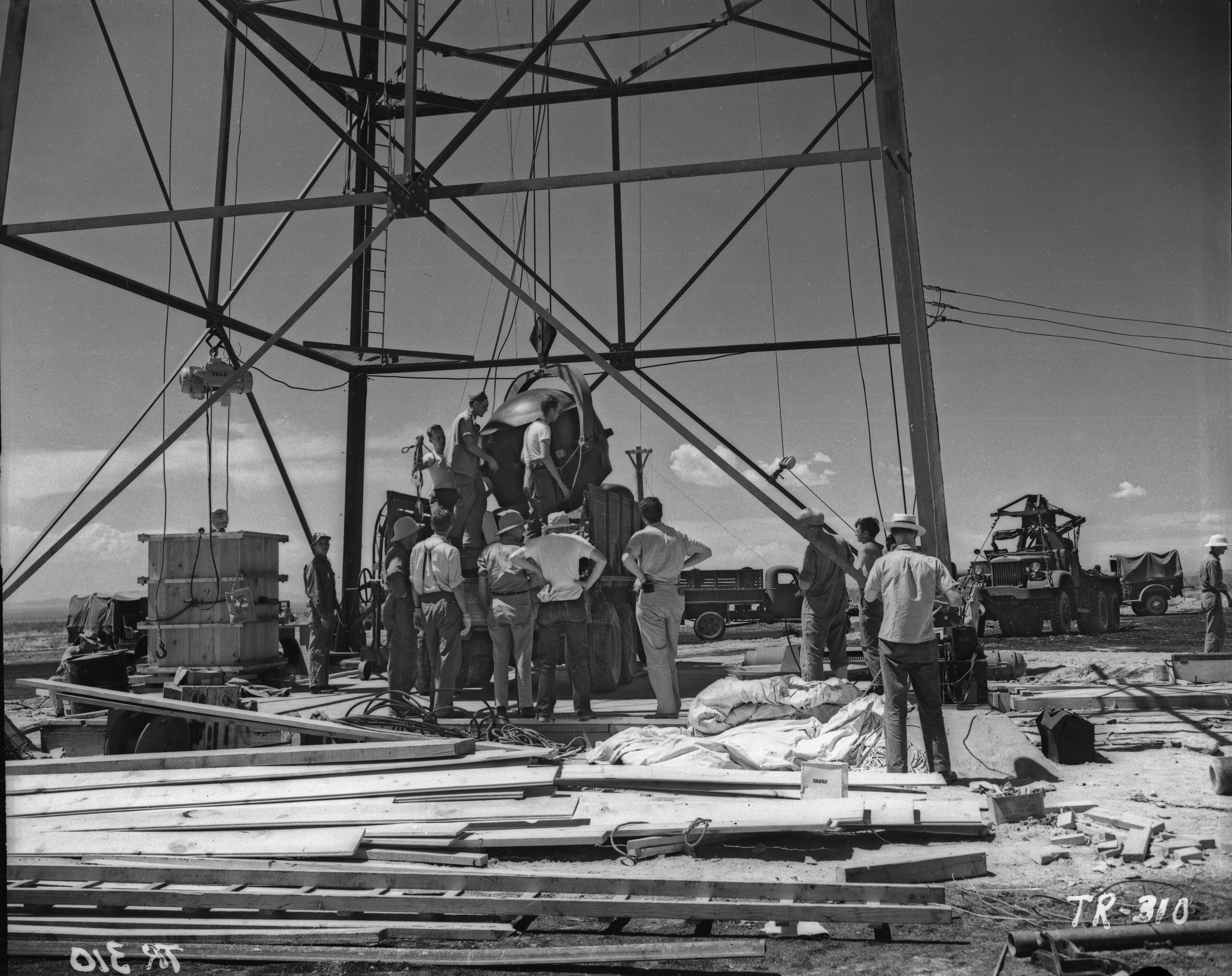 The preparation of the Gadget for the Trinity test, July 1945.